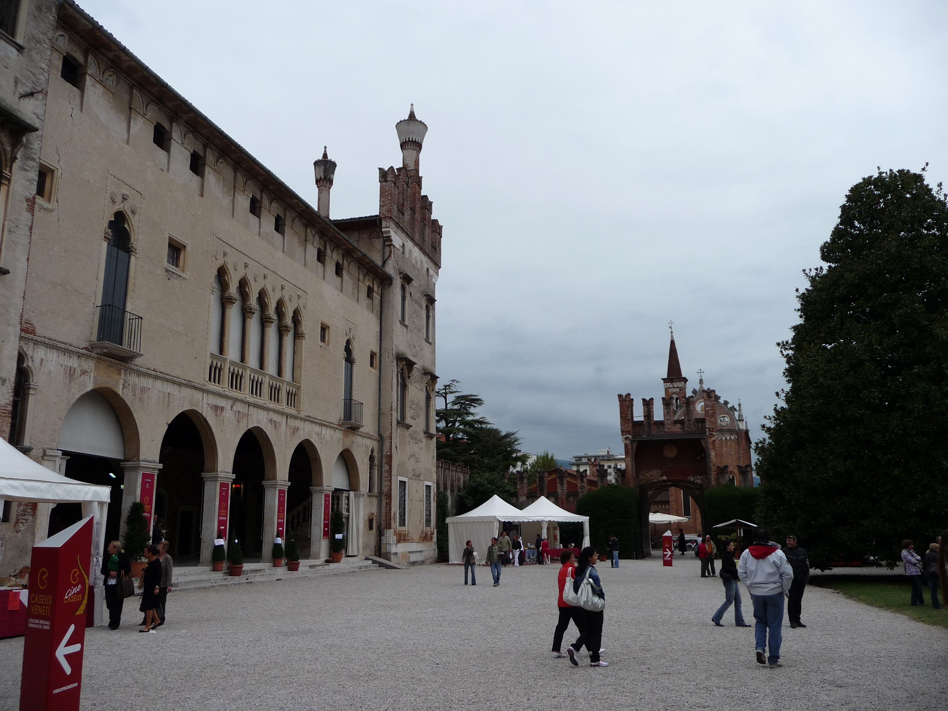 The Villa-Castle Porto Colleoni of Thiene in province of Vicenza.